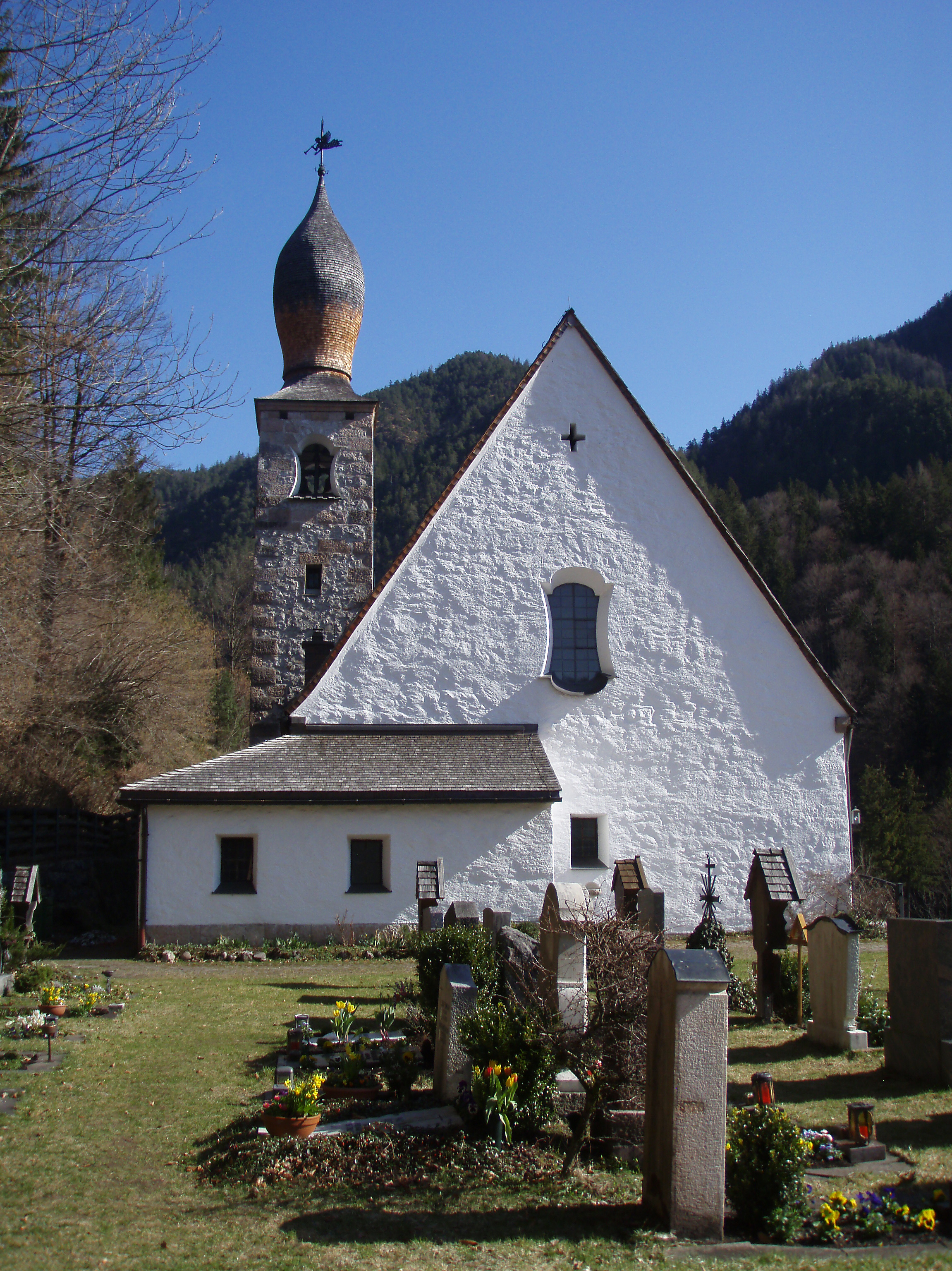 Church of Schneizlreuth, Berchtesgadener Land, Bavaria, Germany